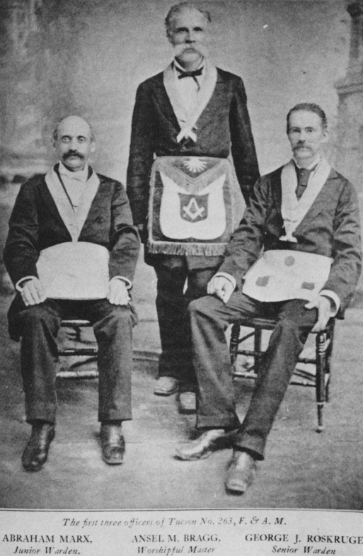 Offices of the Tucson Masonic Lodge, circa 1881 (left to right) Abraham Marx (Junior Warden), Ansel M. Bragg (master), George Roskruge (Senoir Warden)